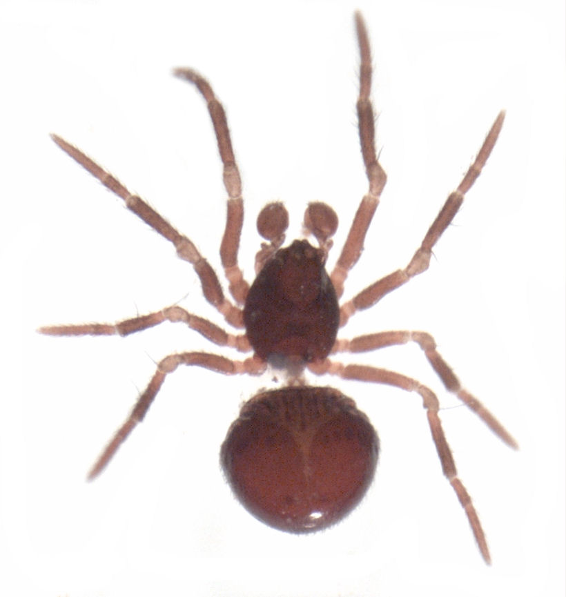 adult male Zealanapis sp. (dorsal)